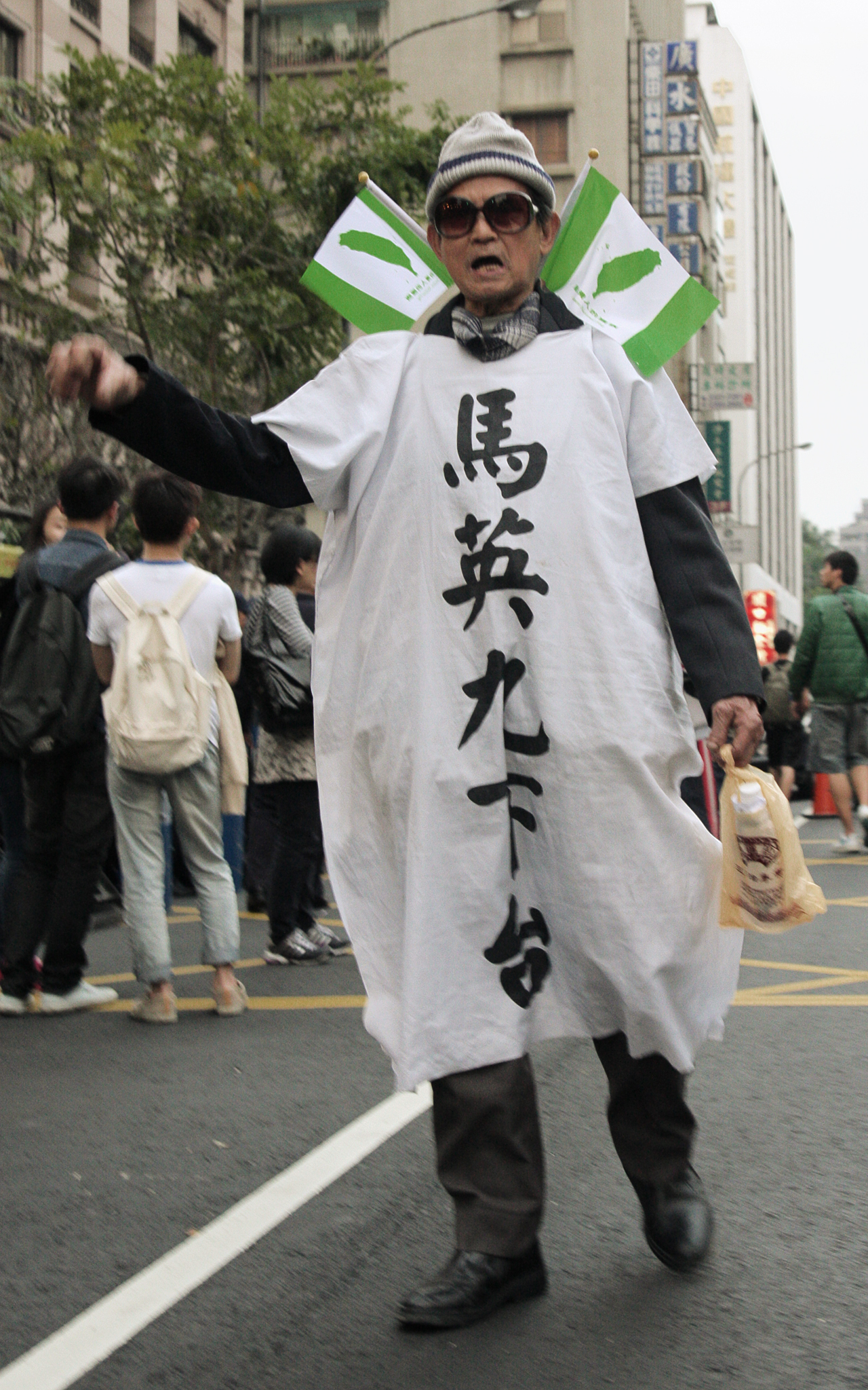 A protester calls for ROC President Ma Ying-Jeou (馬英九) to be removed from power at a political rally outside the Taiwan Legislative Yuan (立法院). The Legislative Yuan has been occupied by a large group of college-aged students protesting the passage of a major China-Taiwan trade agreement. The students are calling for a reversal of the pact, citing non-transparency during negotiations between China and the ruling political party in Taiwan, the Kuomingtang (KMT).